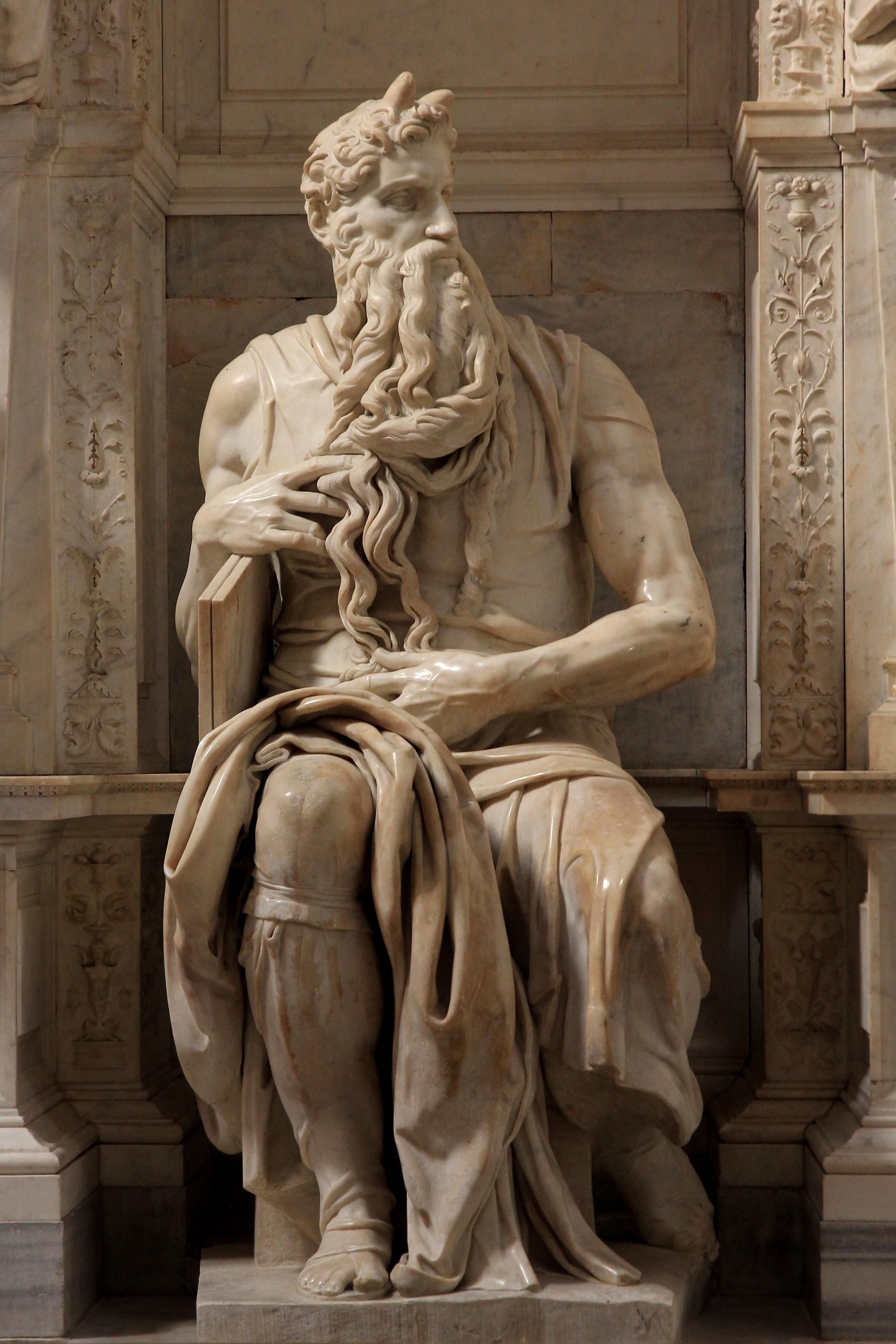 Moses by Michelangelo Buonarroti, Tomb (1505-1545) for Julius II, San Pietro in Vincoli (Rome)